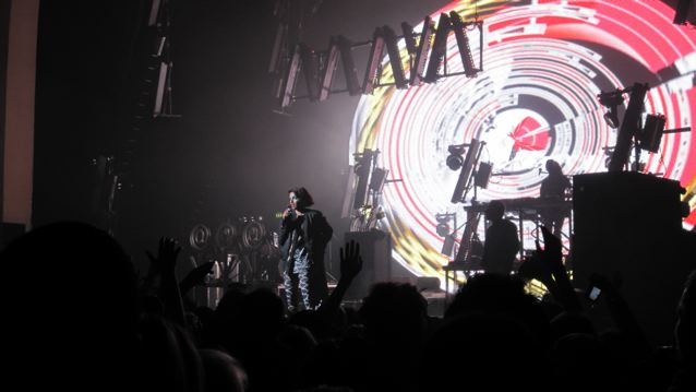 M.I.A. performing on tour in support of third album /\/\ /\ Y /\ , 2010 at 02 Brixton Academy